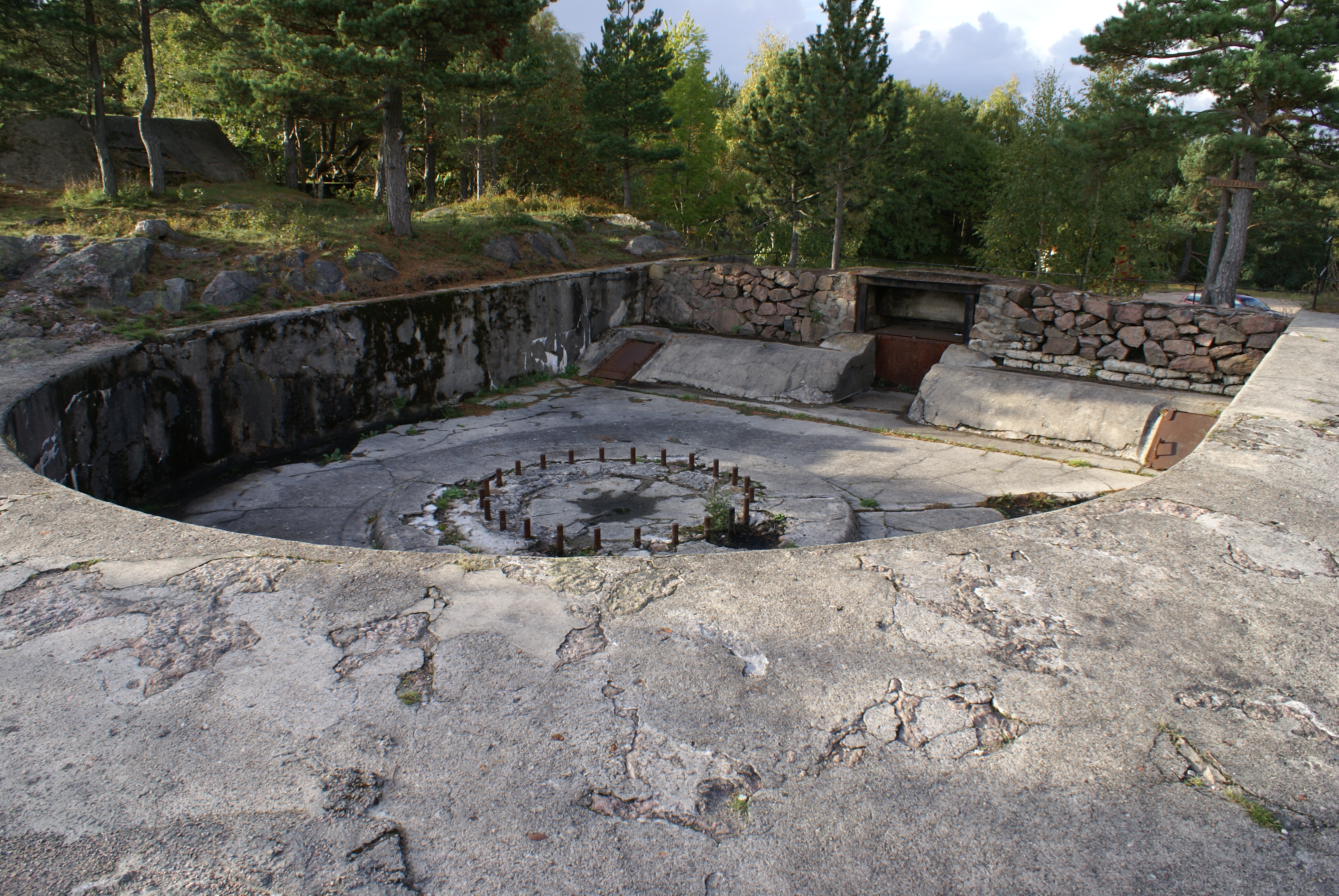 Fortification at the Odderøya island